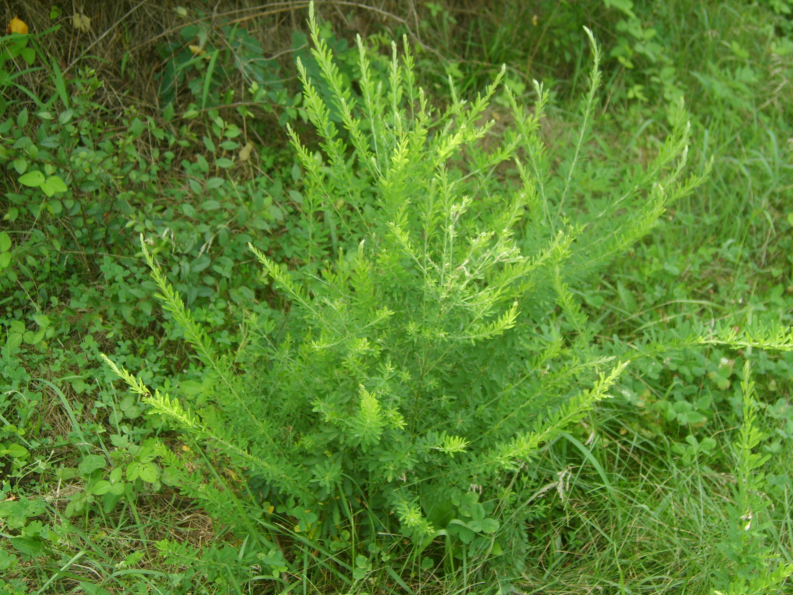 Lespedeza cuneata in Incheon, Korea